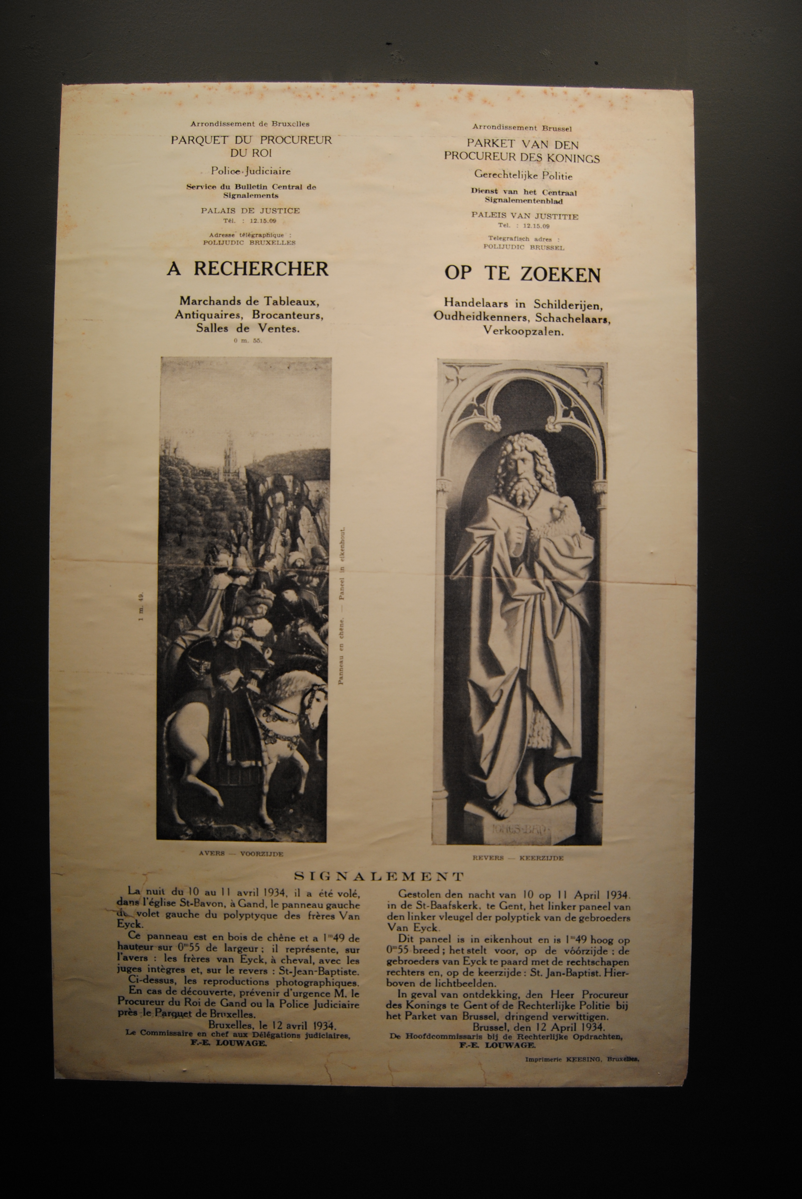 Picture taken with own camera from a federal government warrant in 1934 for the theft of a painting on picture from around 1400.